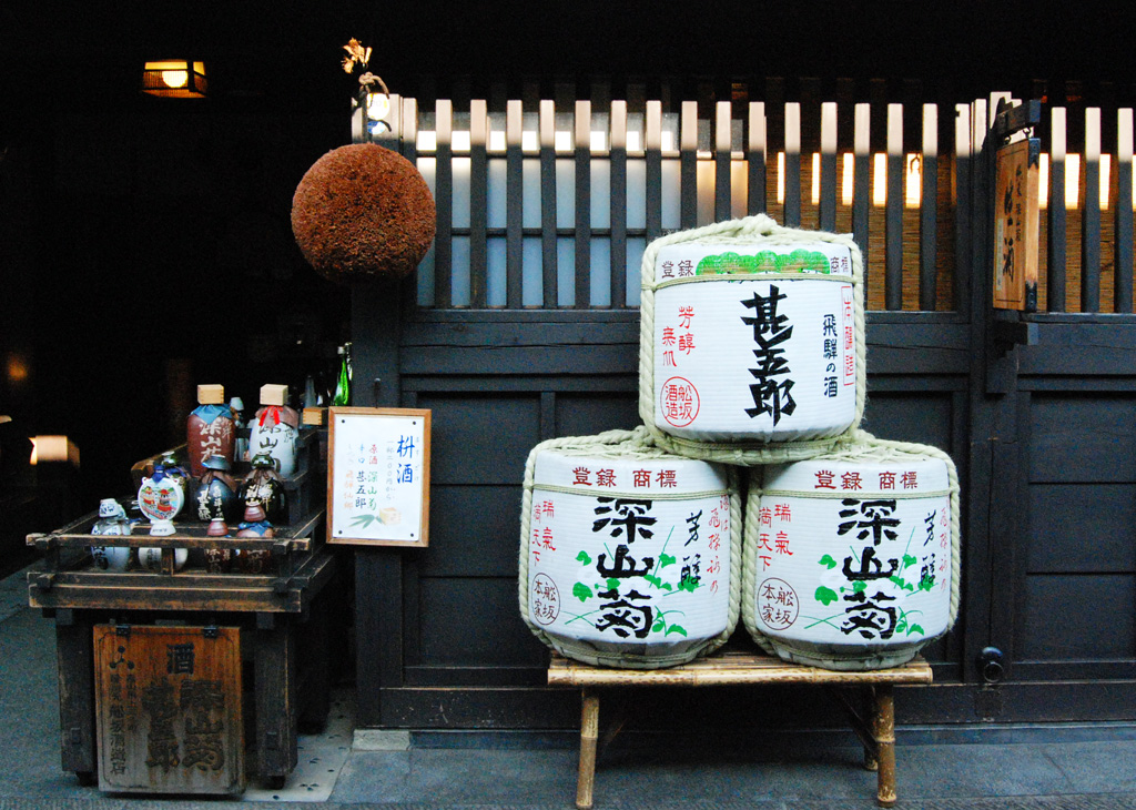 One of the sake shops in Takayama, built into the traditional area of old buildings. I didn't really do much sake drinking... it's a bit sad when you're traveling by yourself!